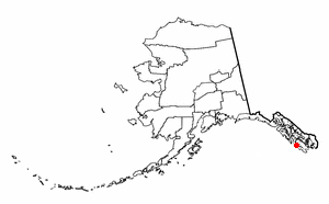 Adapted from Wikipedia's AK borough maps by Seth Ilys.